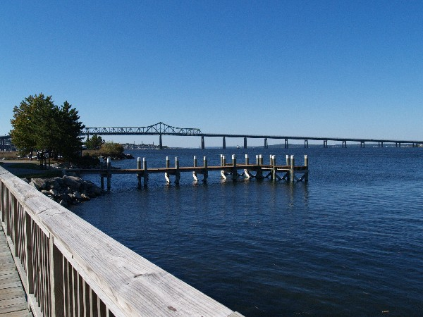 Taunton River at Fall River, Massachusetts